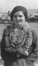 Franziska Donner in 1933.